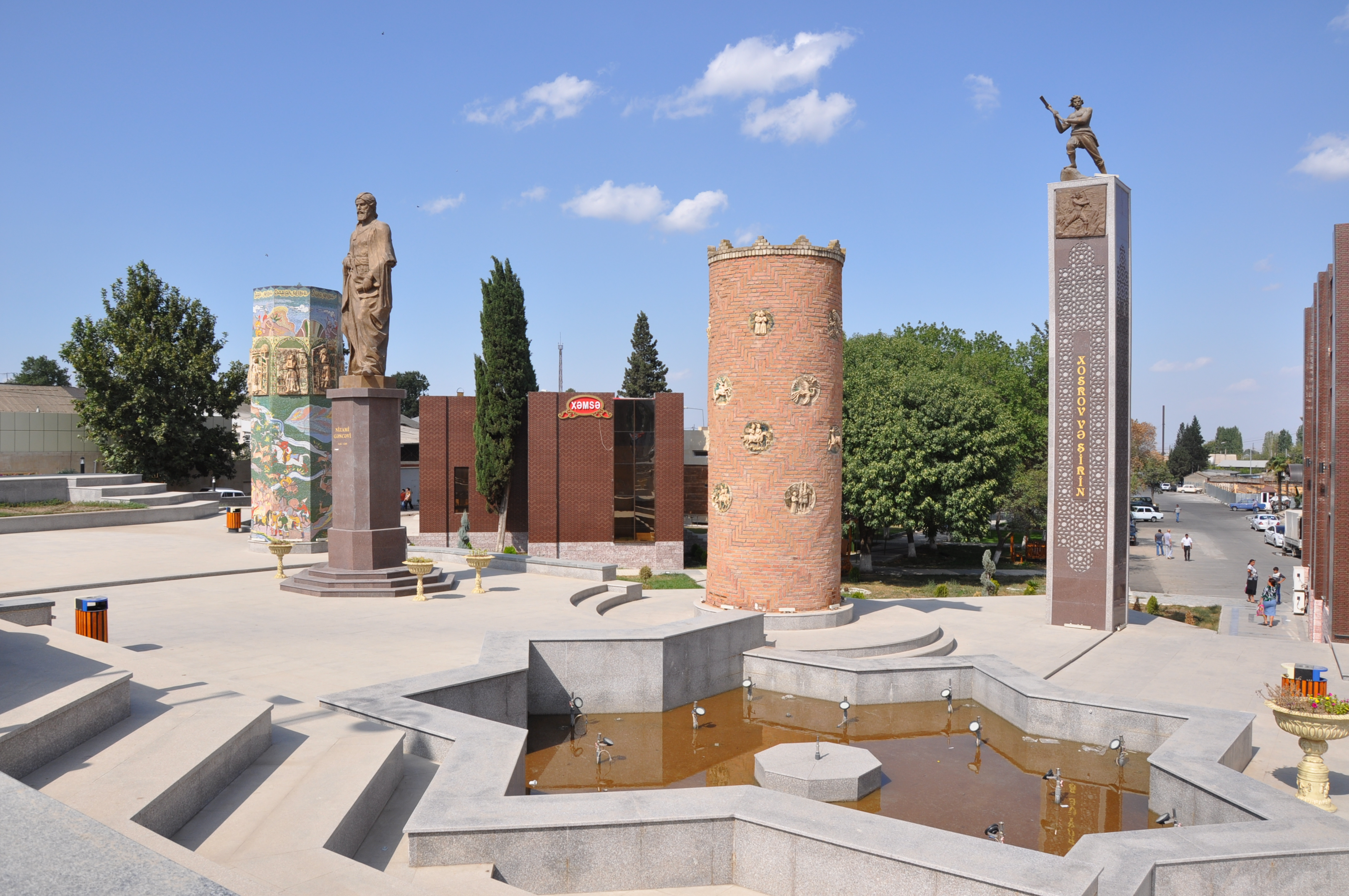 Khamse Garden and monument of Nizami Ganjavi in Ganja (Azerbaijan), where he was born, lived and died.